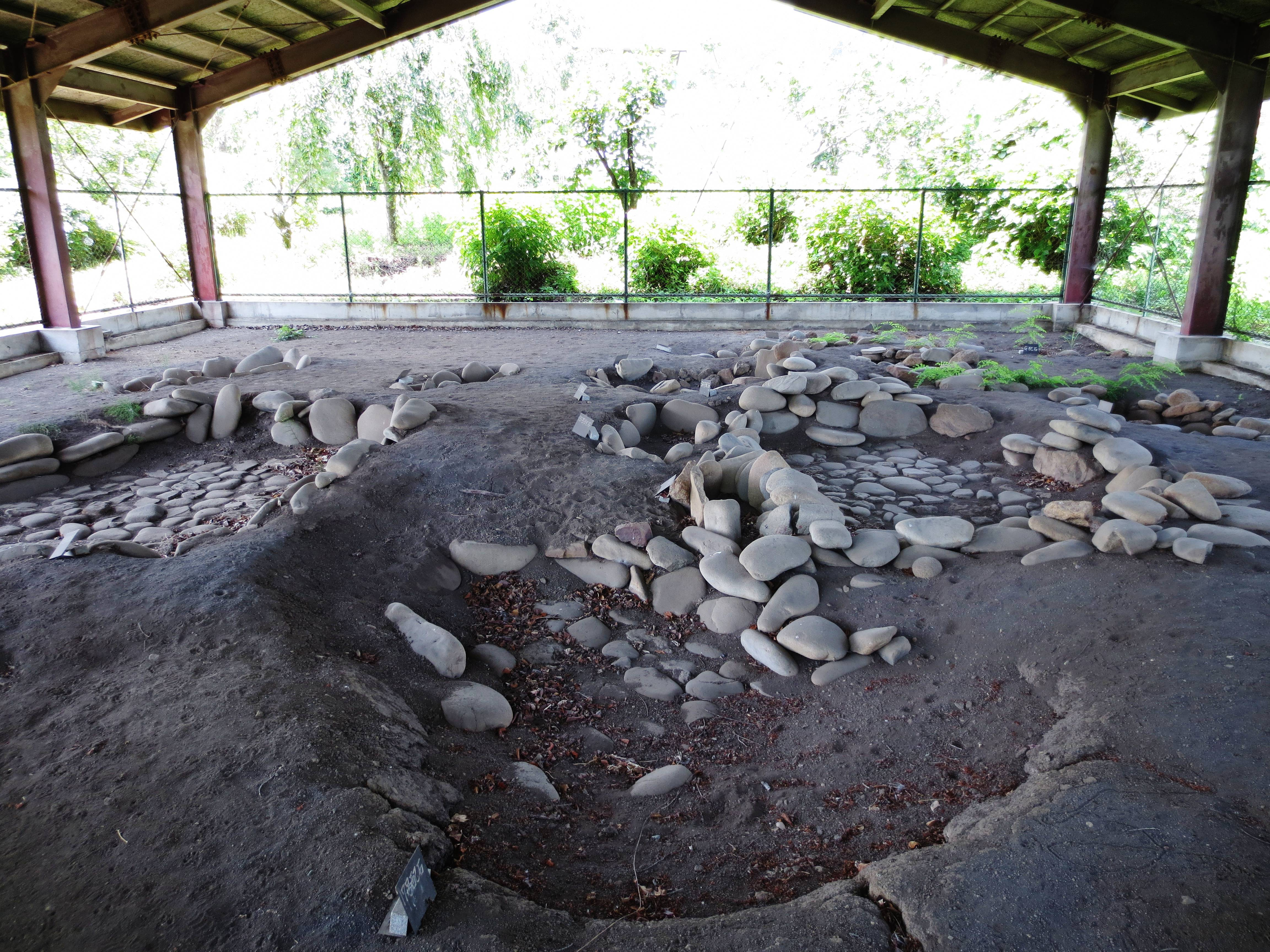 Fukasawa Archaeological site.